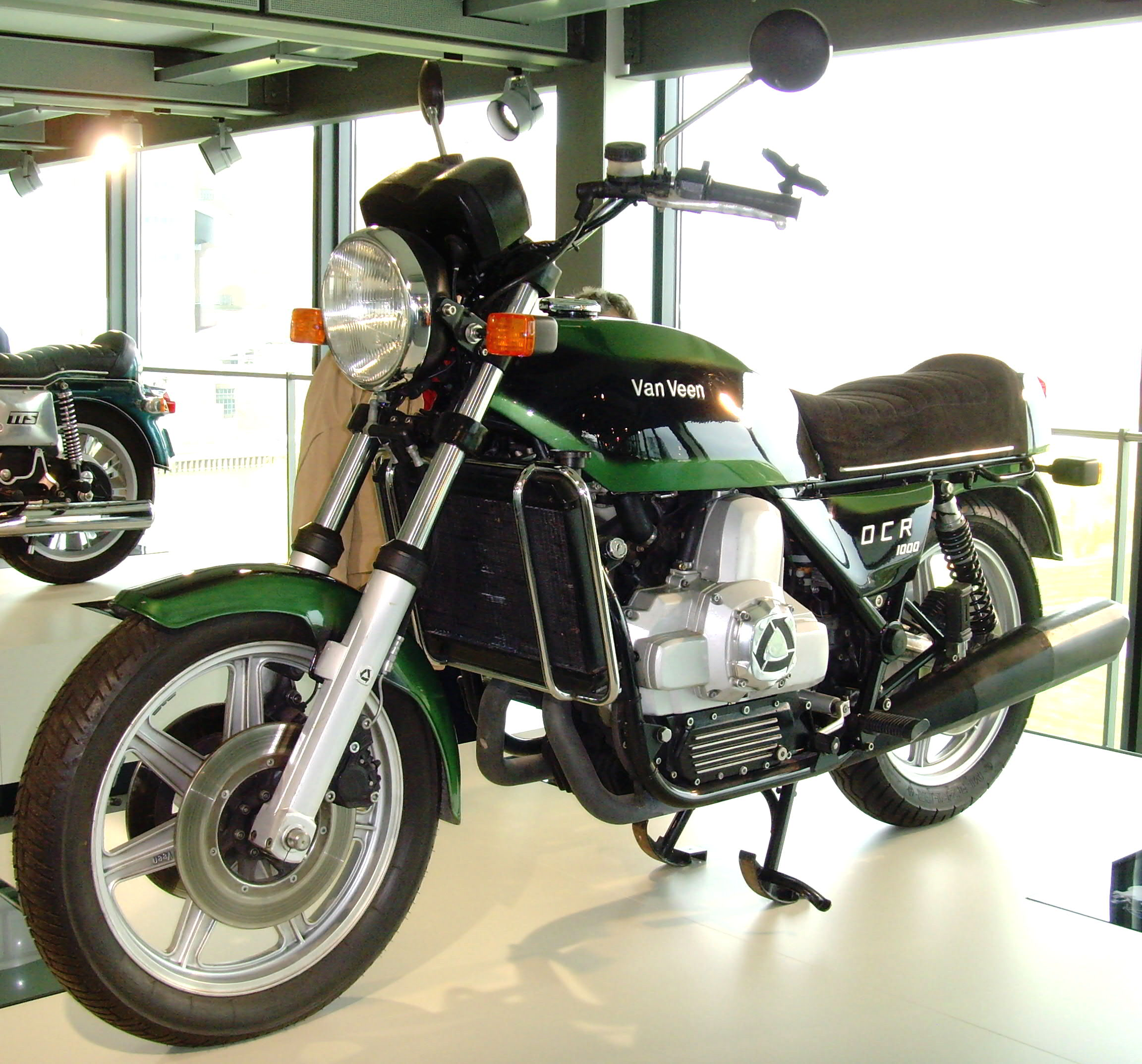 Van Veen OCR 1000 1977 with the Citroen GS-sourced engine re-purposed into a motorcycle, exhibited at Autostadt Wolfsburg